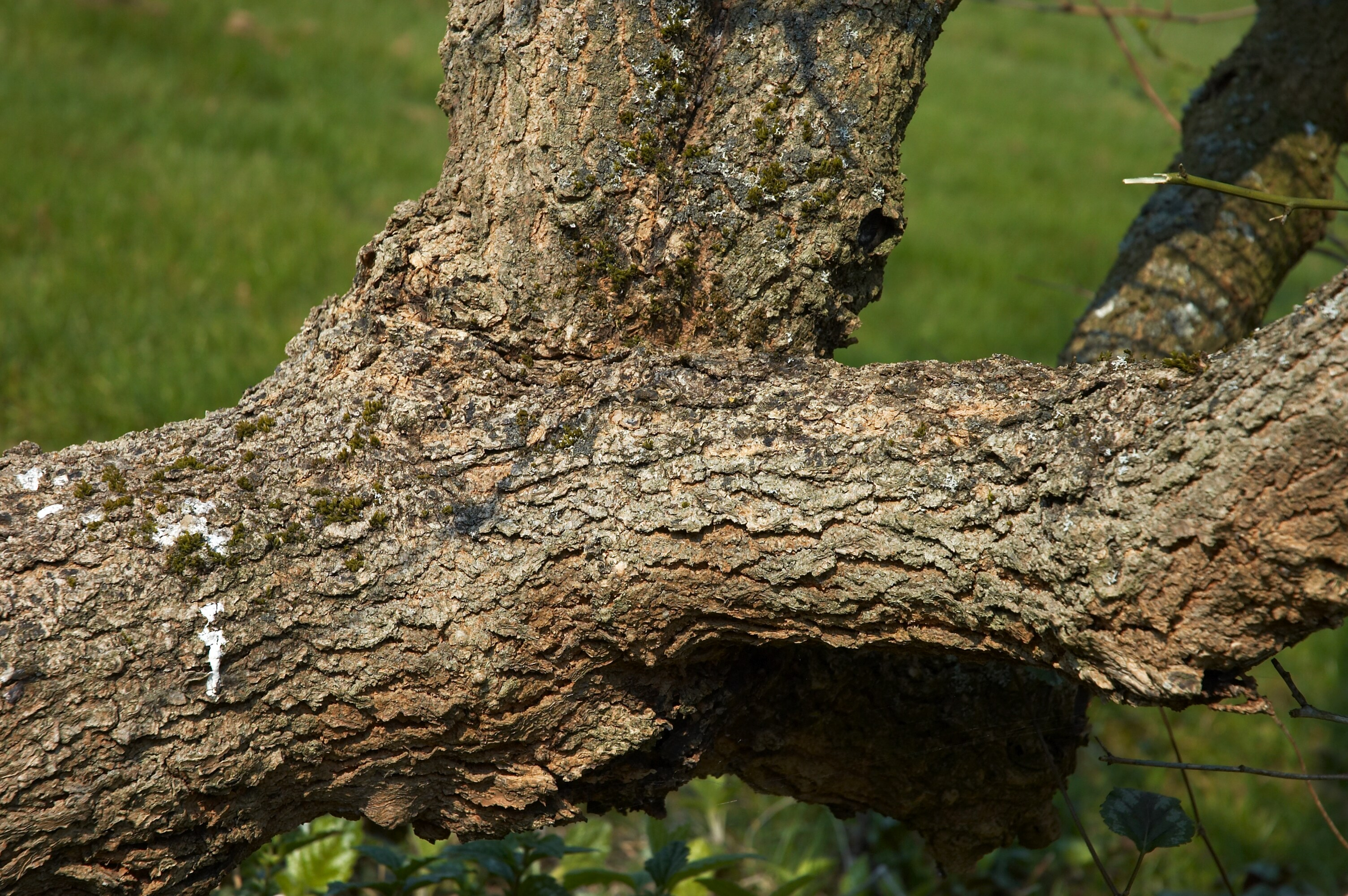 Black Mulberry. Photo taken in Belgium